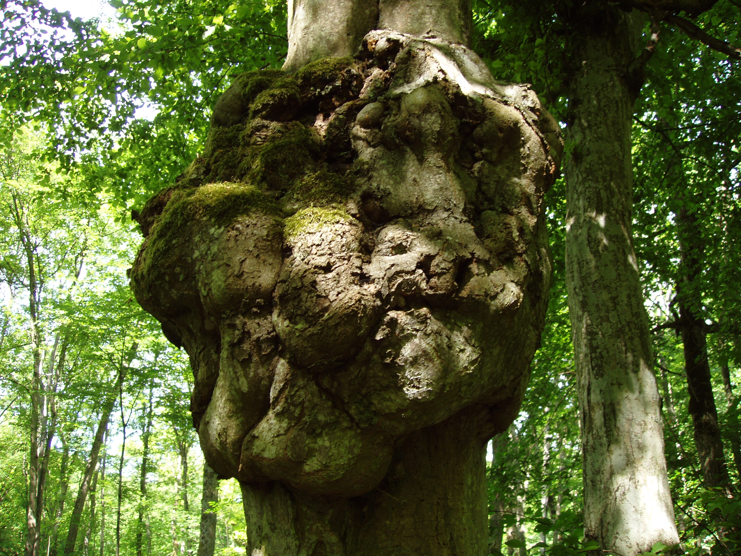 Unknown gall on a elm tree found in a Bavarian forest